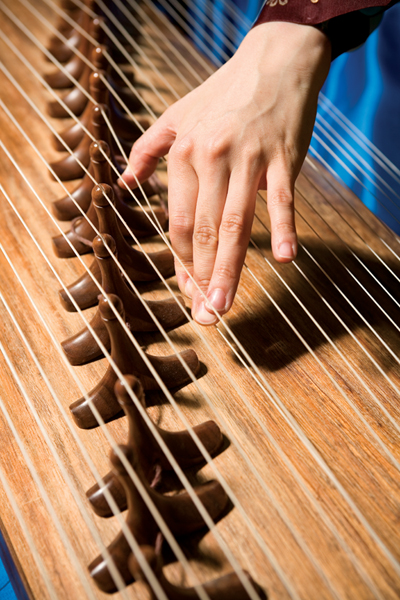 gayageum (a traditional 12-stringed Korean instrument) (Source: Han Style)